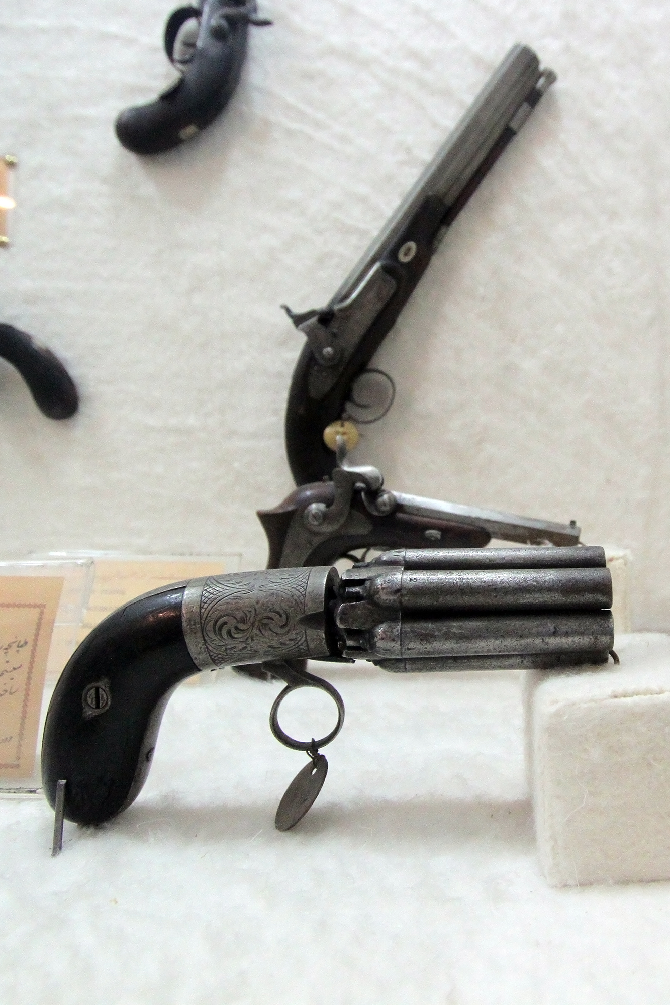 Afif-Abad Garden originally the Golshan Garden, is a museum complex in Shiraz, Iran.